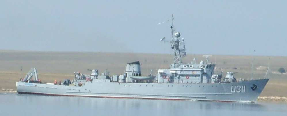 Cherkasy (U311) minesweeper at Novoozerno